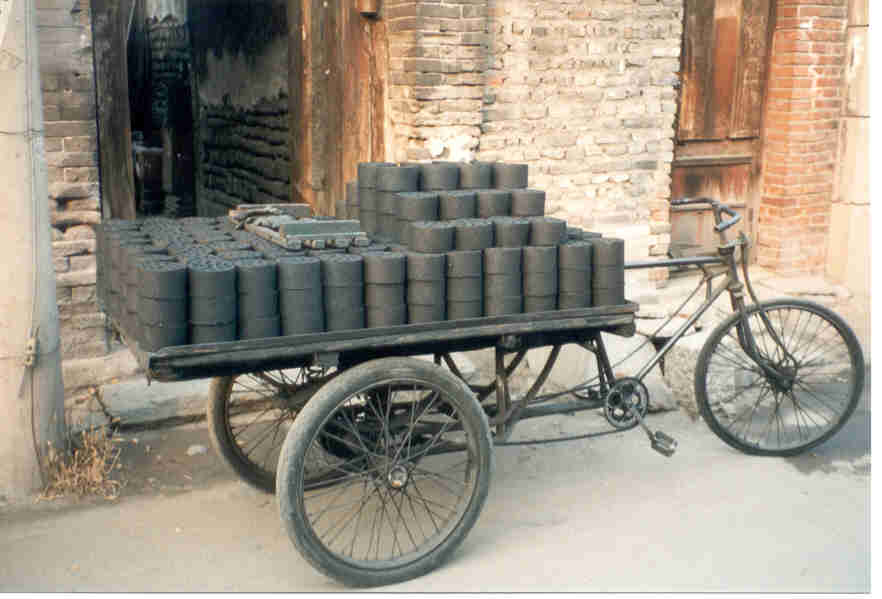 Is this saving or adding to emissions?